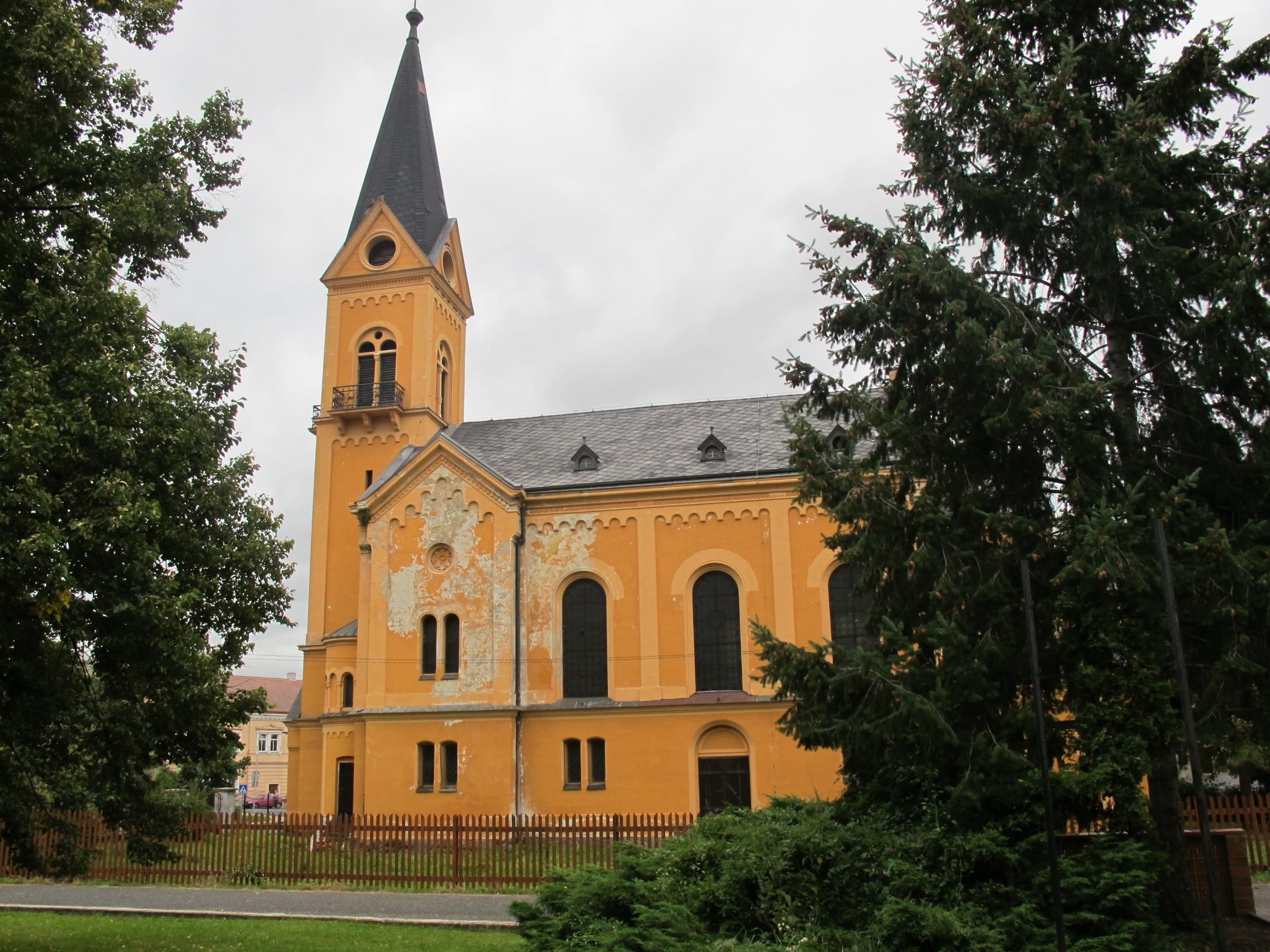 Church of the Divine Saviour, Podbořany